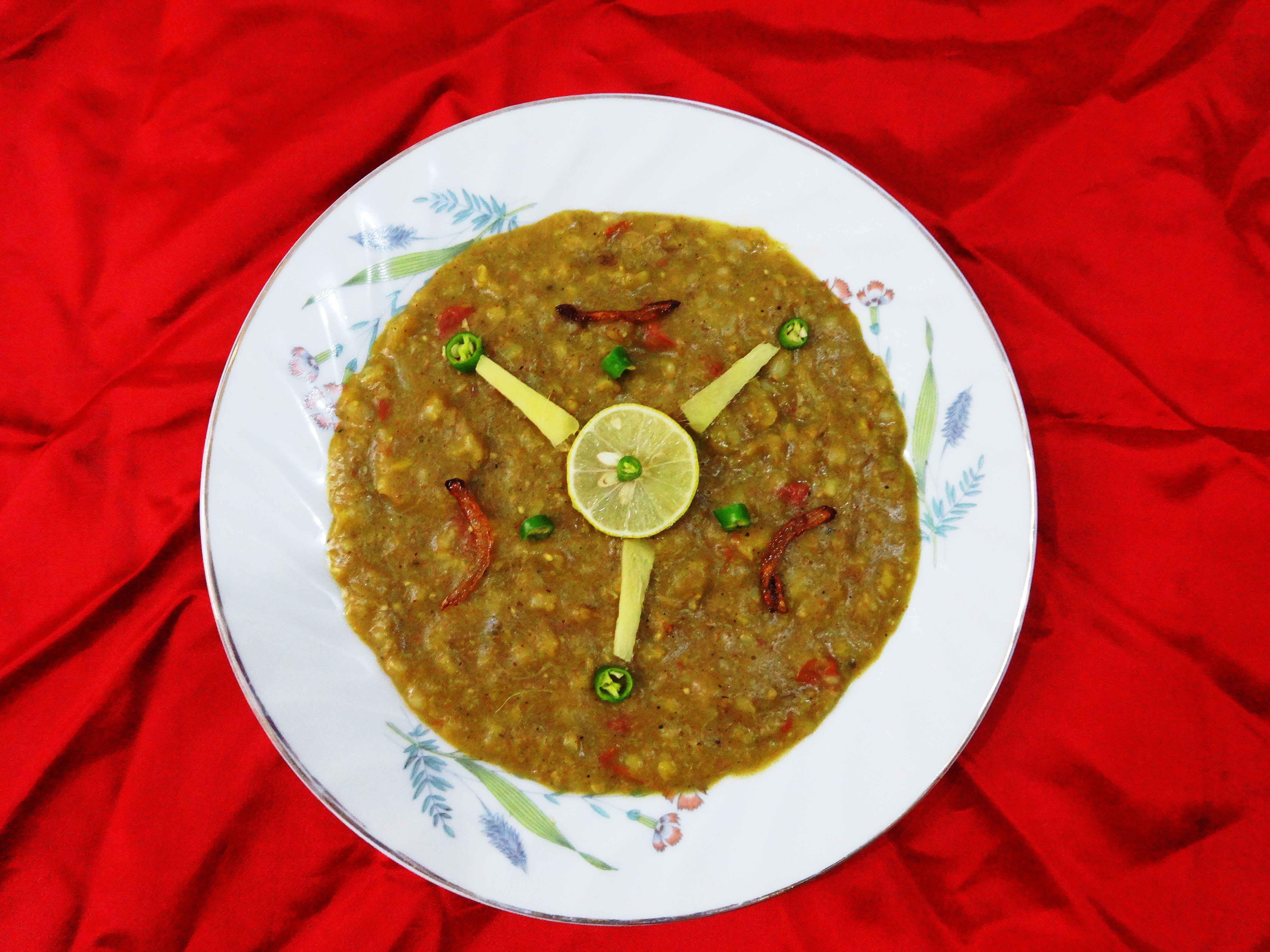 حریسہ، ھریسہ Hareesa is a popular Popular dish in Lahore Punjab, Kashmir Pakistan